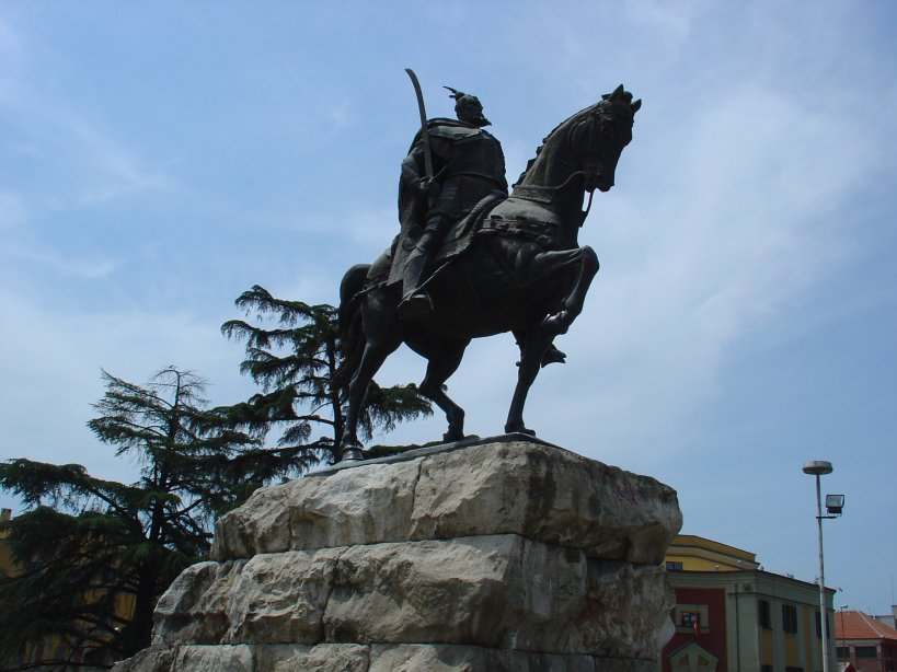 Statue of Gjergj Kastrioti Skenderbeu in Tirana